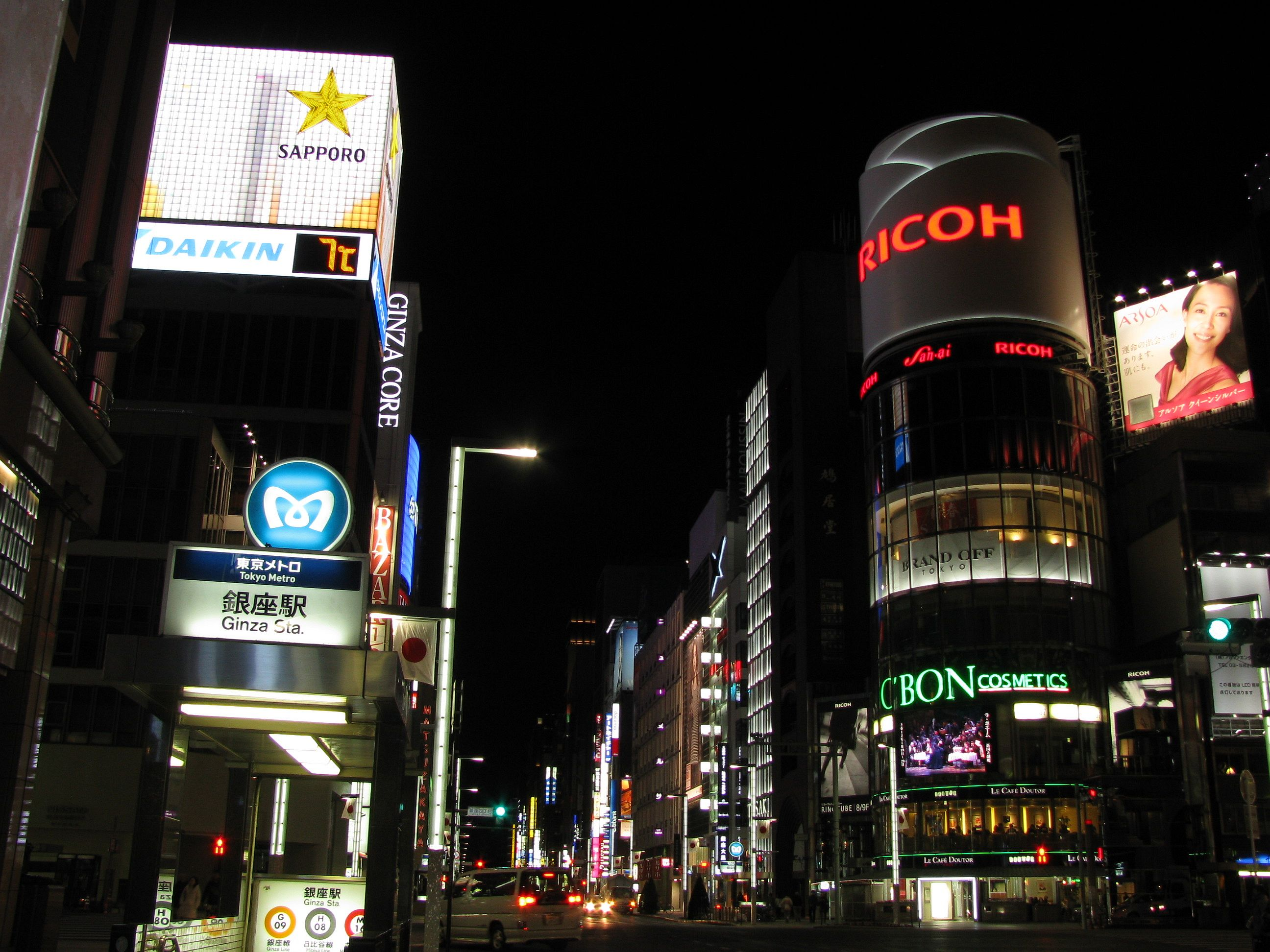 The Ginza in Chuo, Tokyo, Japan.